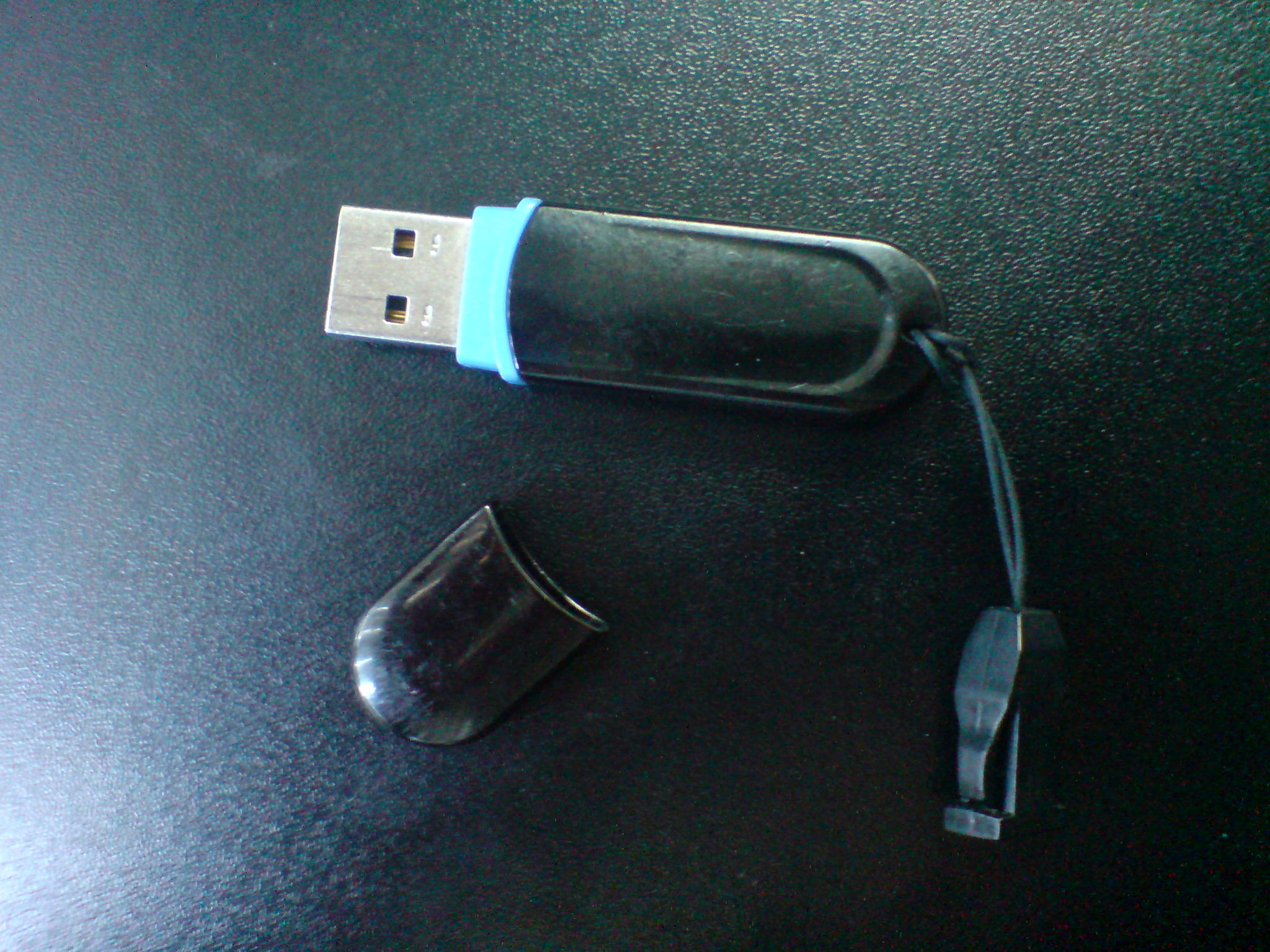 usb